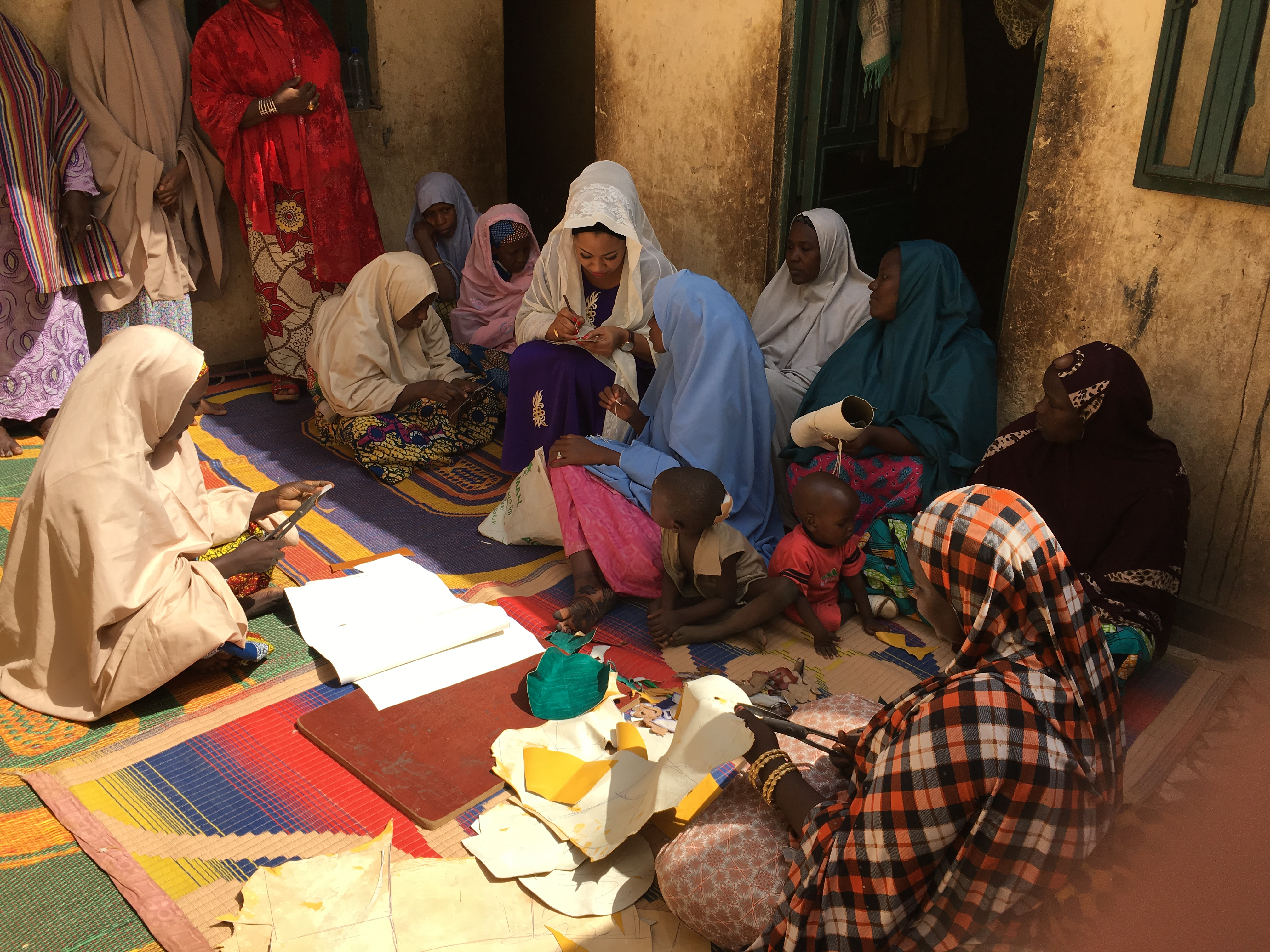 The northern women are by culture restricted from working amongst men. So to earn a living a cluster of females within a family work together. Here, the CEO of Builders Hub Foundation working with the women of Sokoto state make leather motifs for handmade upholdsry and leather wear. This is an image of "African people at work" from Nigeria